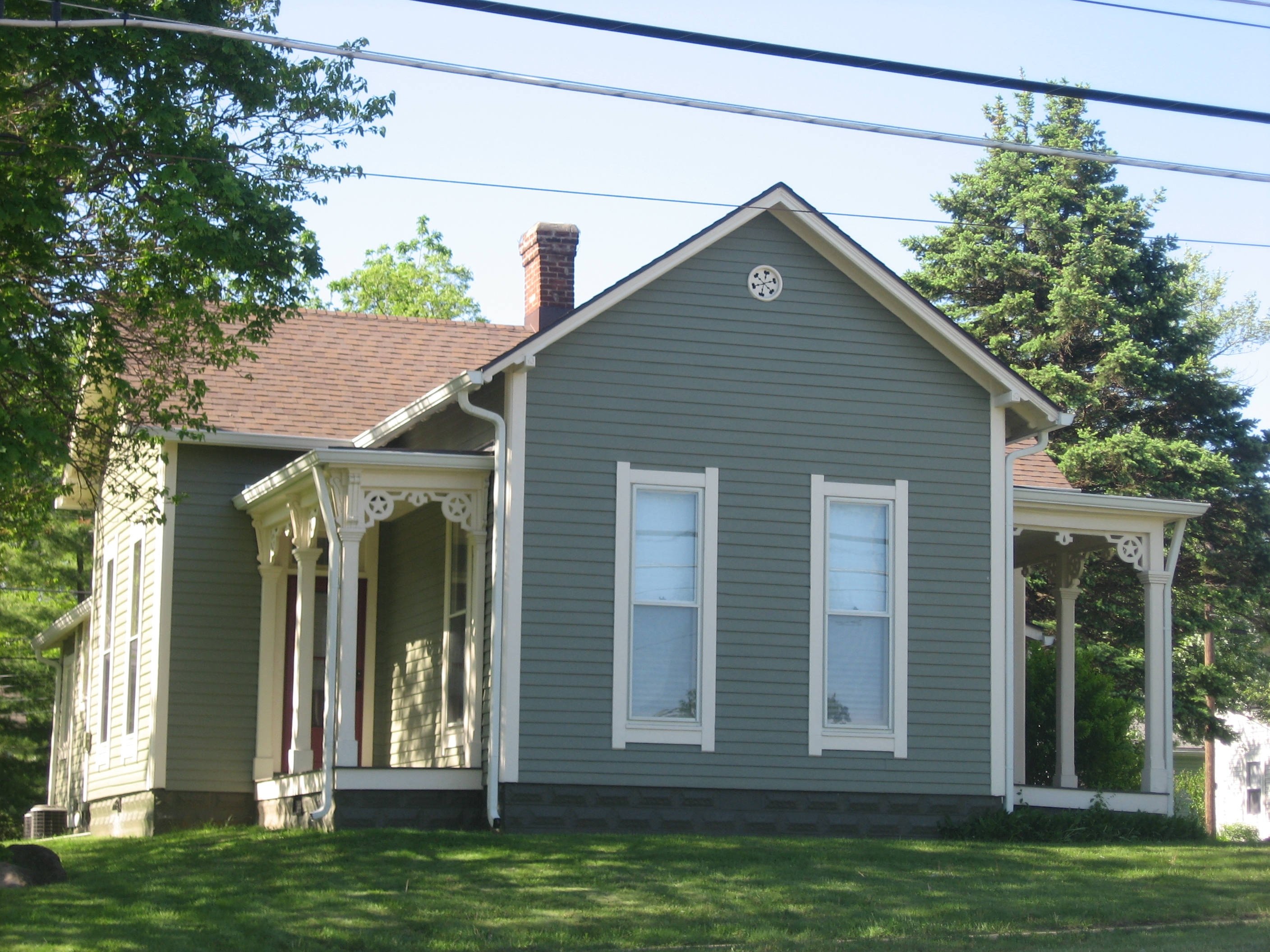 Front of the Ora Adams House, located at 301-303 E. Main Street (U.S. Route 36) in Danville, Indiana, United States. Built in 1883, it is listed on the National Register of Historic Places.